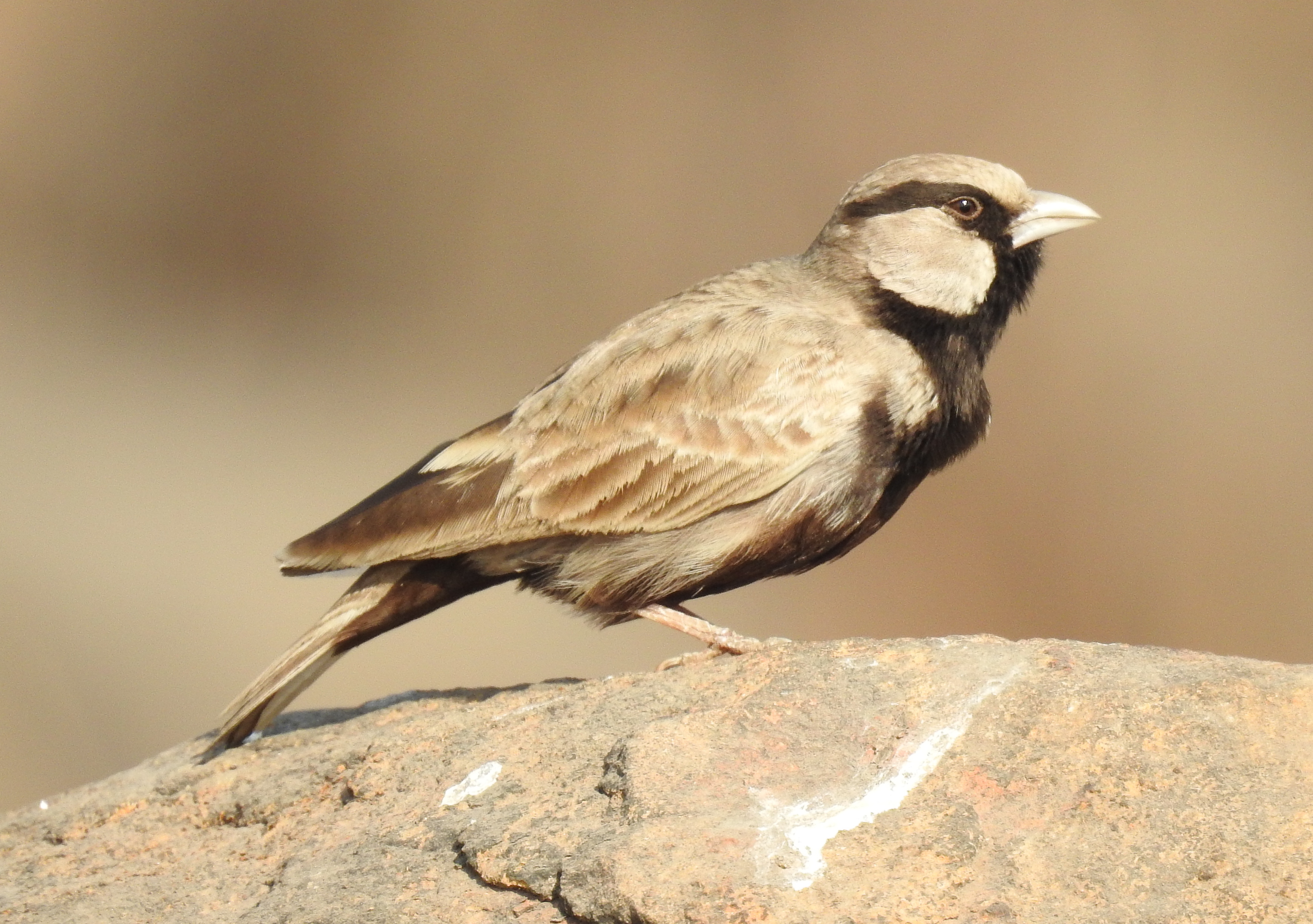 Ashy-crowned Sparrow Lark Eremopterix griseus. Photo by Dr. Raju Kasambe in Thane district, Maharashtra, India. Alternate names: Ash-crowned Sparrow-lark, Ashy-crowned Finch-lark, Black-bellied Finch-lark, and Black-bellied Sparrow-lark